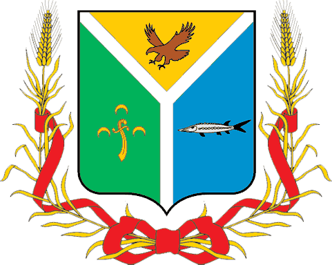 Coat of Arms of Prymors'kyj Raion